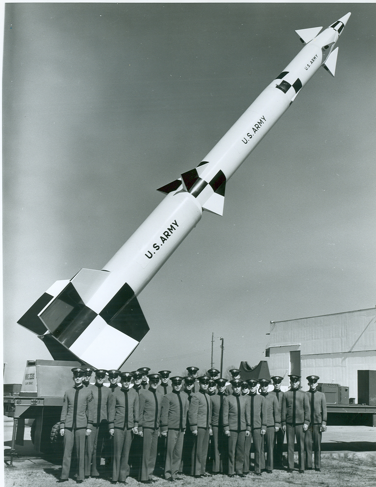 A group of West Point Cadets pose with a NIKE-ZEUS missile at White Sands Missile Range, N.M.